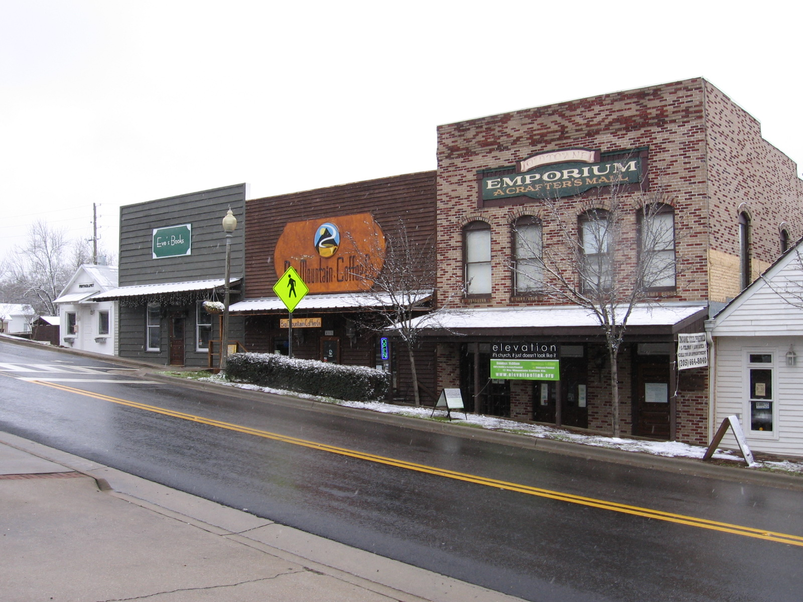 Old Town Helena, Alabama during a rare snow fall.